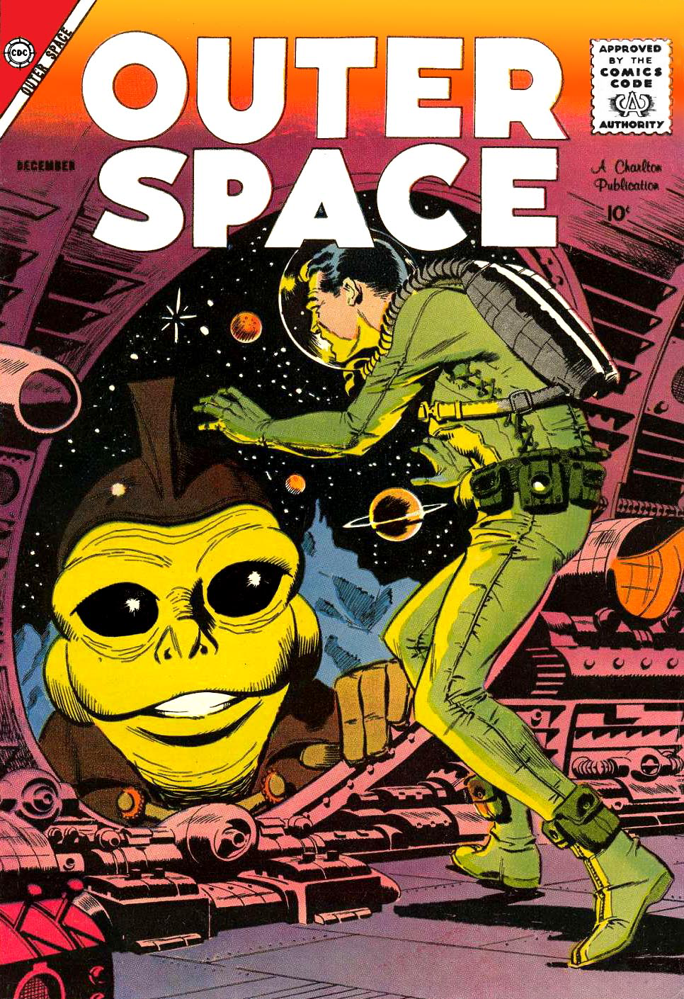 Dick Giordano does a surprisingly faithful impression of Wally Wood on the cover of Outer Space (Charlton, December 1958). As the Space Age got off to a blazing start, science fiction enjoyed a sudden revival in the comics industry.